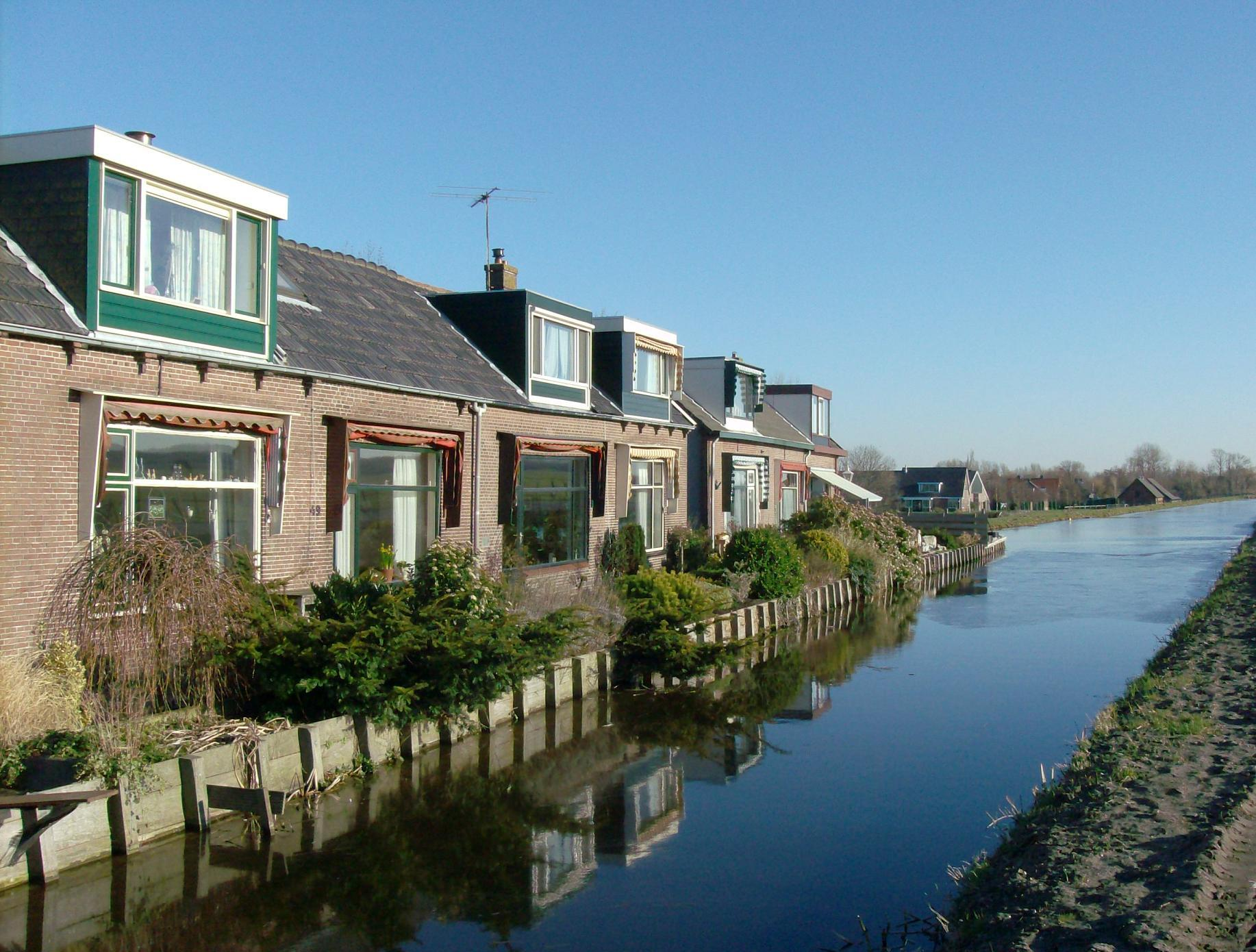 Houses on a drainage canal on a dike, Wilsveen, Leidschendam-Voorburg, Netherlands, Nederland, Pays-Bas